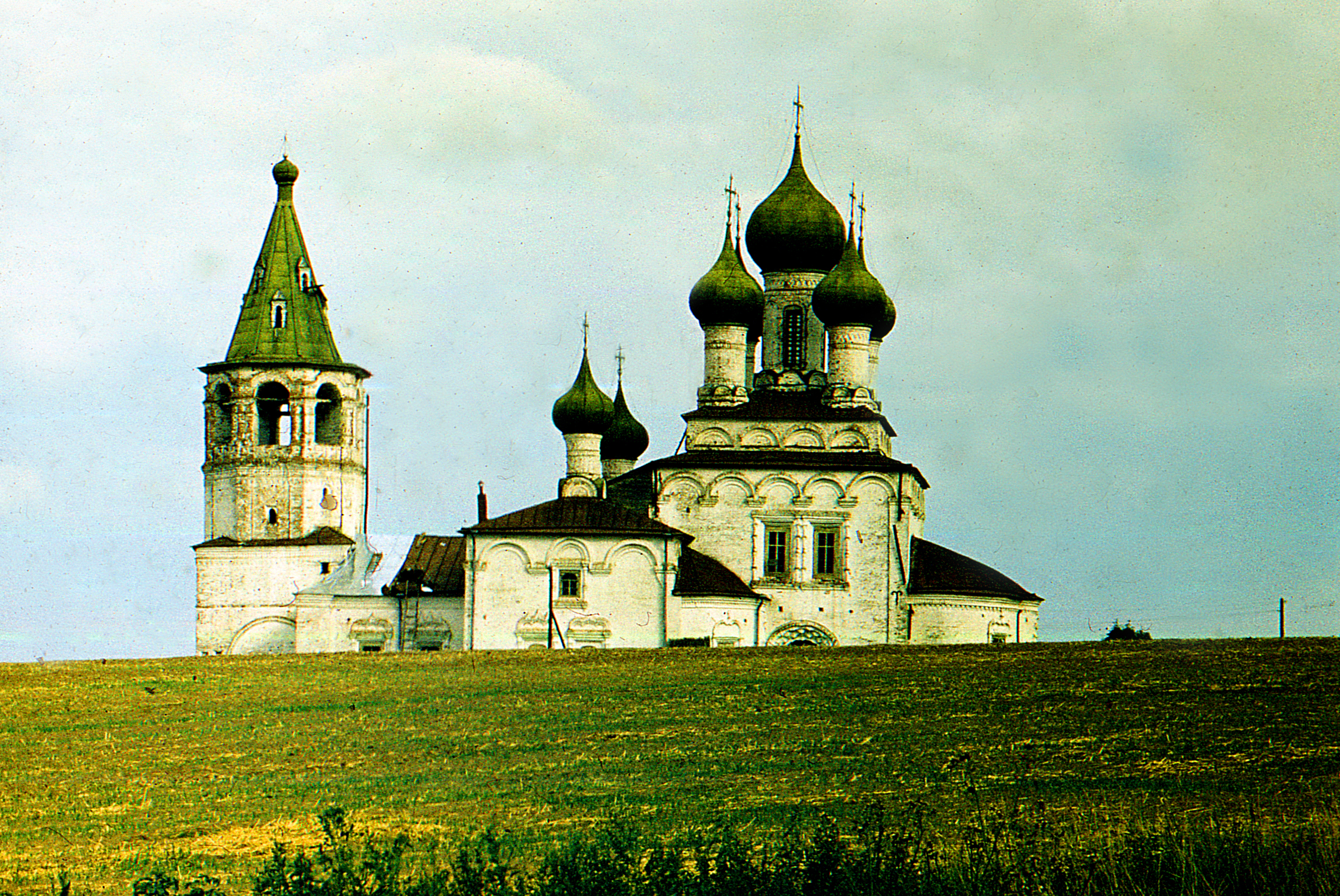 Matigory, Kholmogorsky District. Church of the Resurrection of Christ, built in 1686-90.